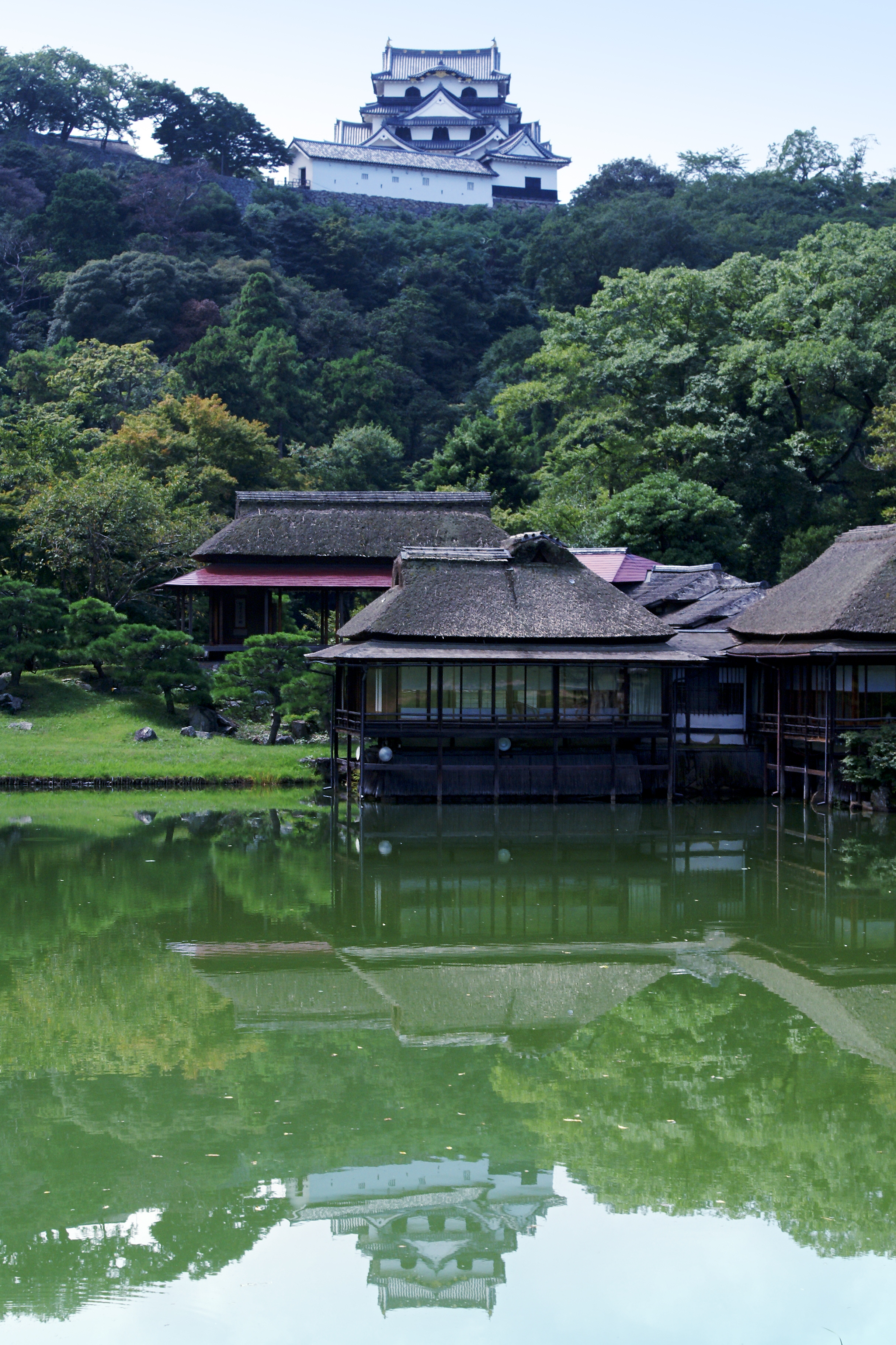 Genkyuen garden in Hikone, Shiga prefecture, Japan